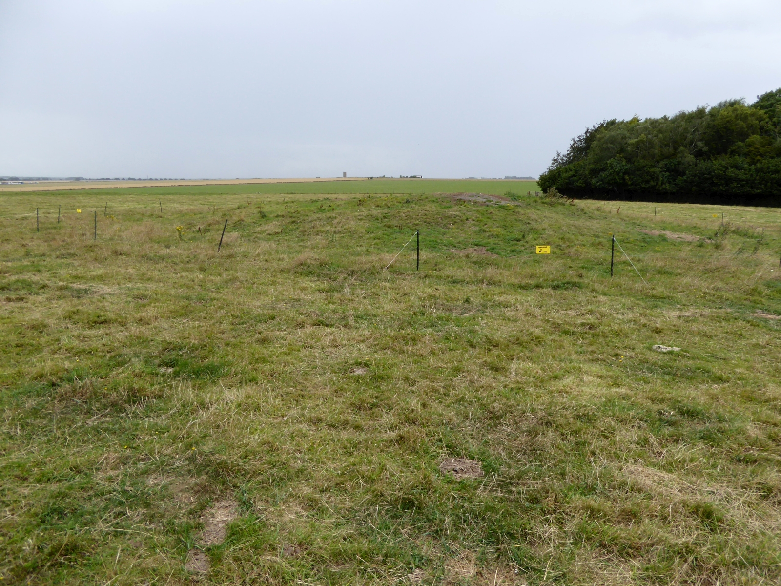 Tumulus at west end of Cursus. Uploader's note: The barrow known as Amesbury 56.